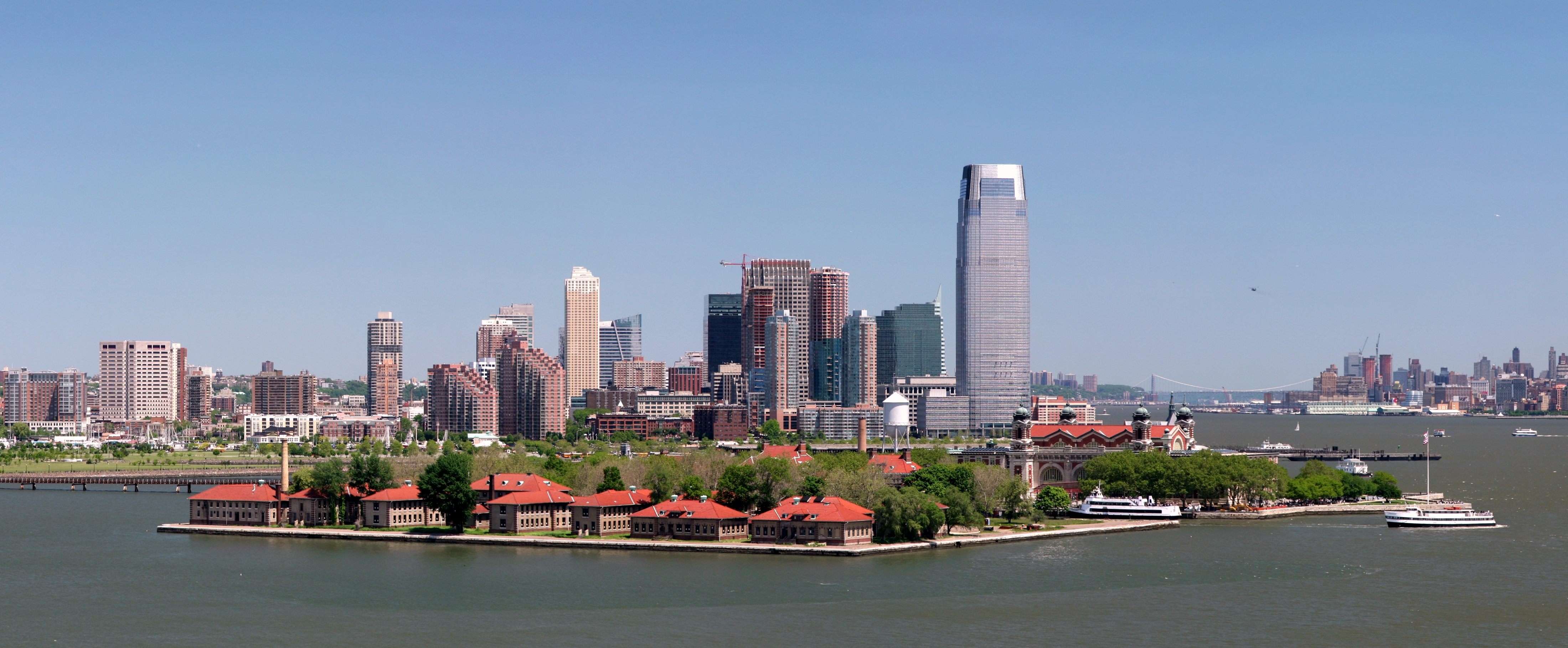 Ellis Island as seen from Liberty Island, New York City